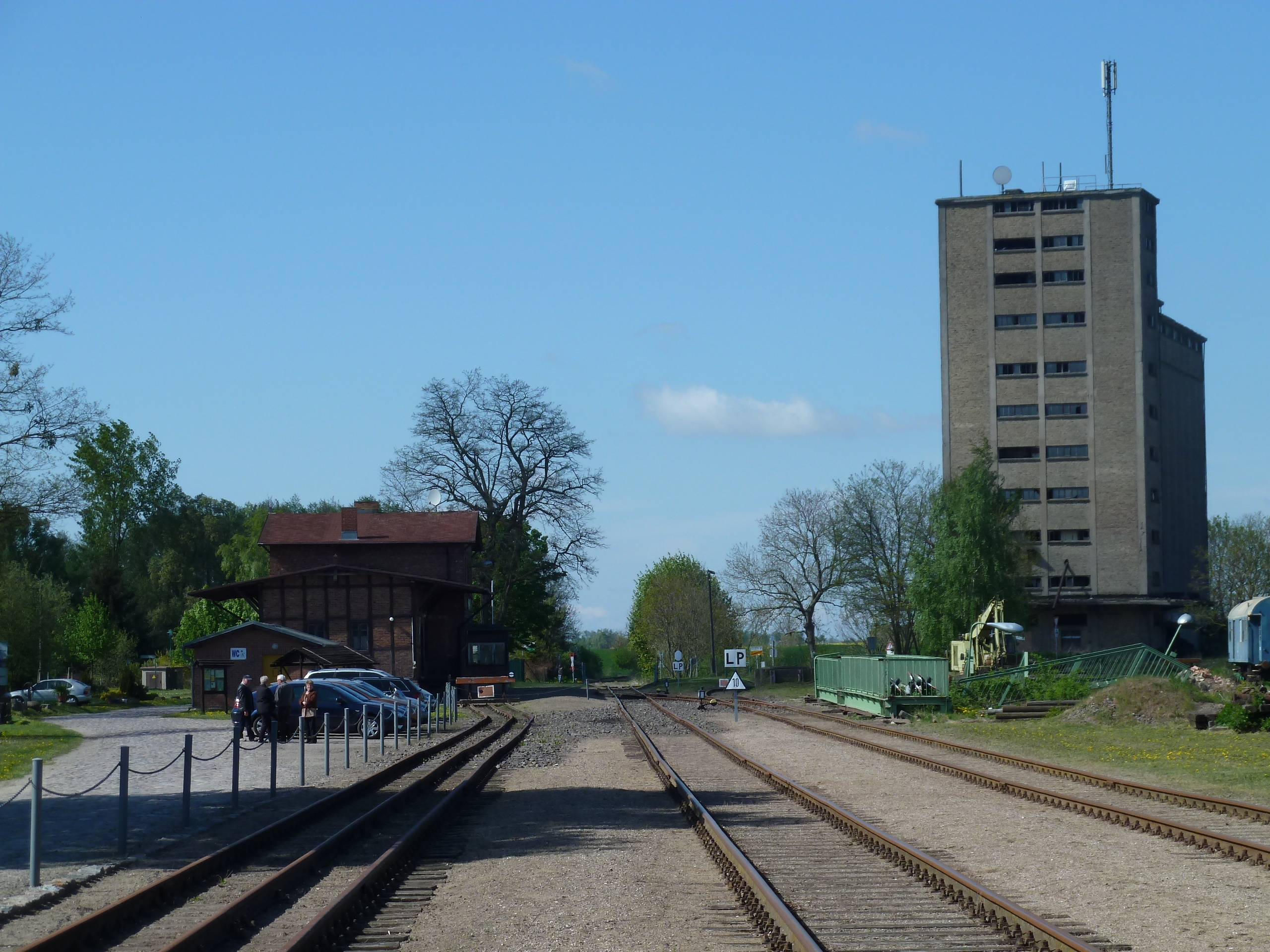 Gramzow station, today railway museum.